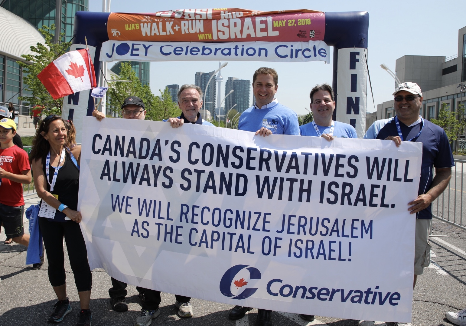 An incredible turnout at the UJA Federation Walk with Israel in Toronto with Israeli Consul General Galit Baram and many others! Joined by my colleagues Senator Linda Frum, M.P. Peter Kent, and M.P. Garnett Genuis, Canada's Conservatives are always proud to stand in support of Israel.